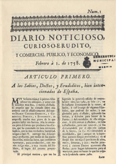 Frontpage of the first number of the Diario noticioso, curioso, erudito y comercial, político y económico which will become later the Diario de Madrid (1st of february of 1758).